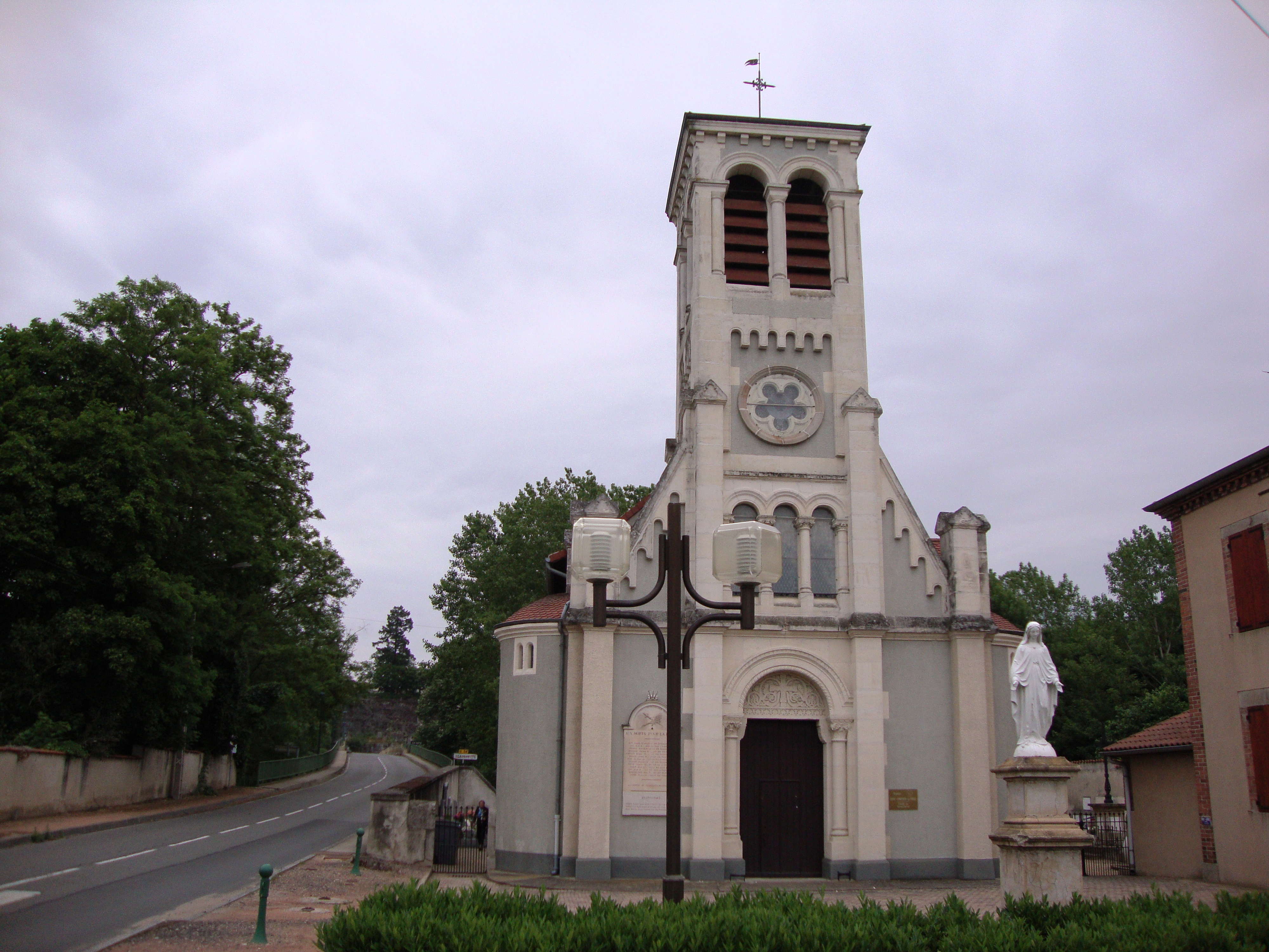 Veauchette (Loire, Fr) church and statue of Virgin Mary. In the background: bridge of D 54 over the Loire river.